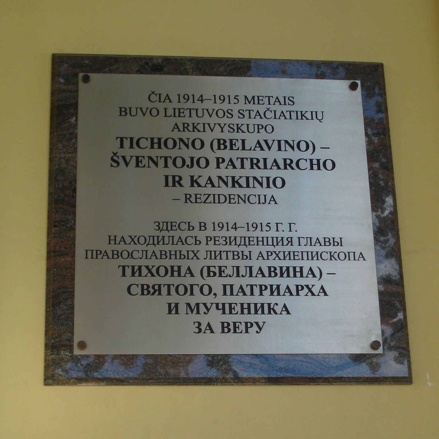 Saint Tikhon memorial tablet in Vilnius